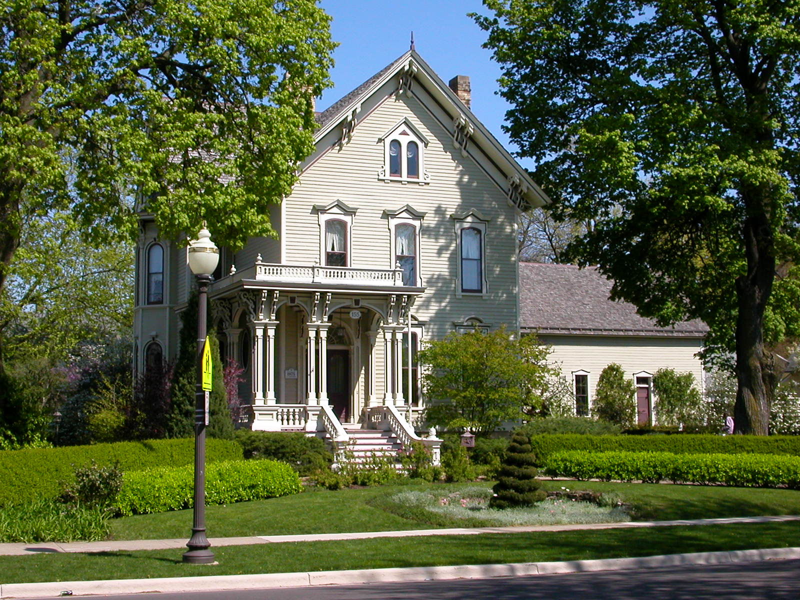 Victorian house in historic district near downtown Elgin, Illinois.